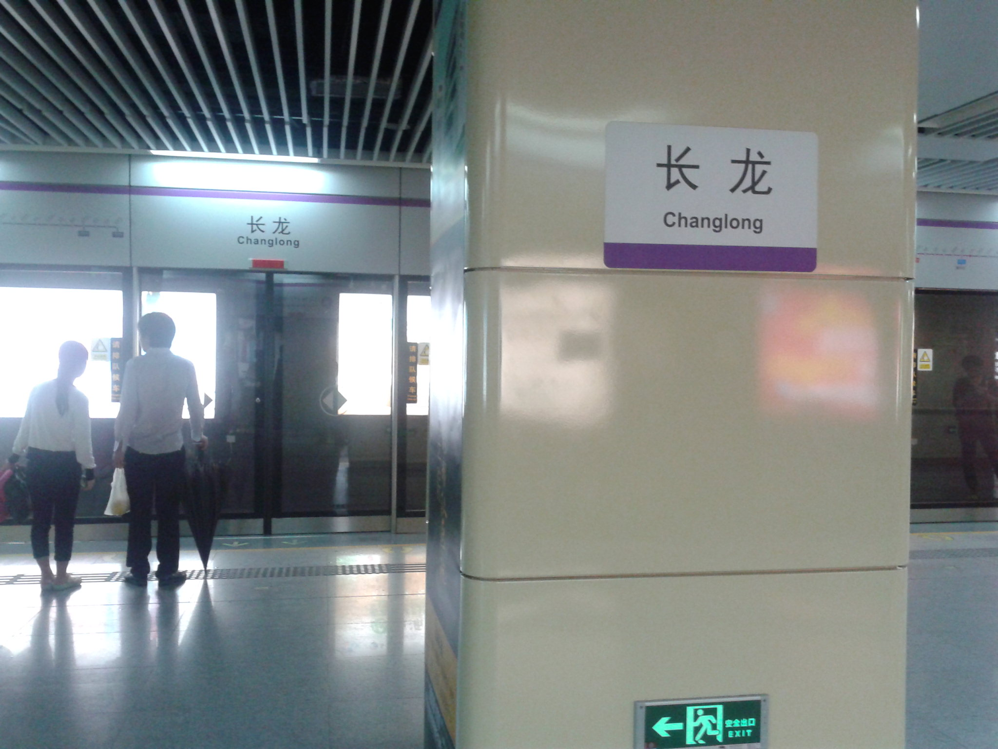 Shenzhen Metro_Changlong Station